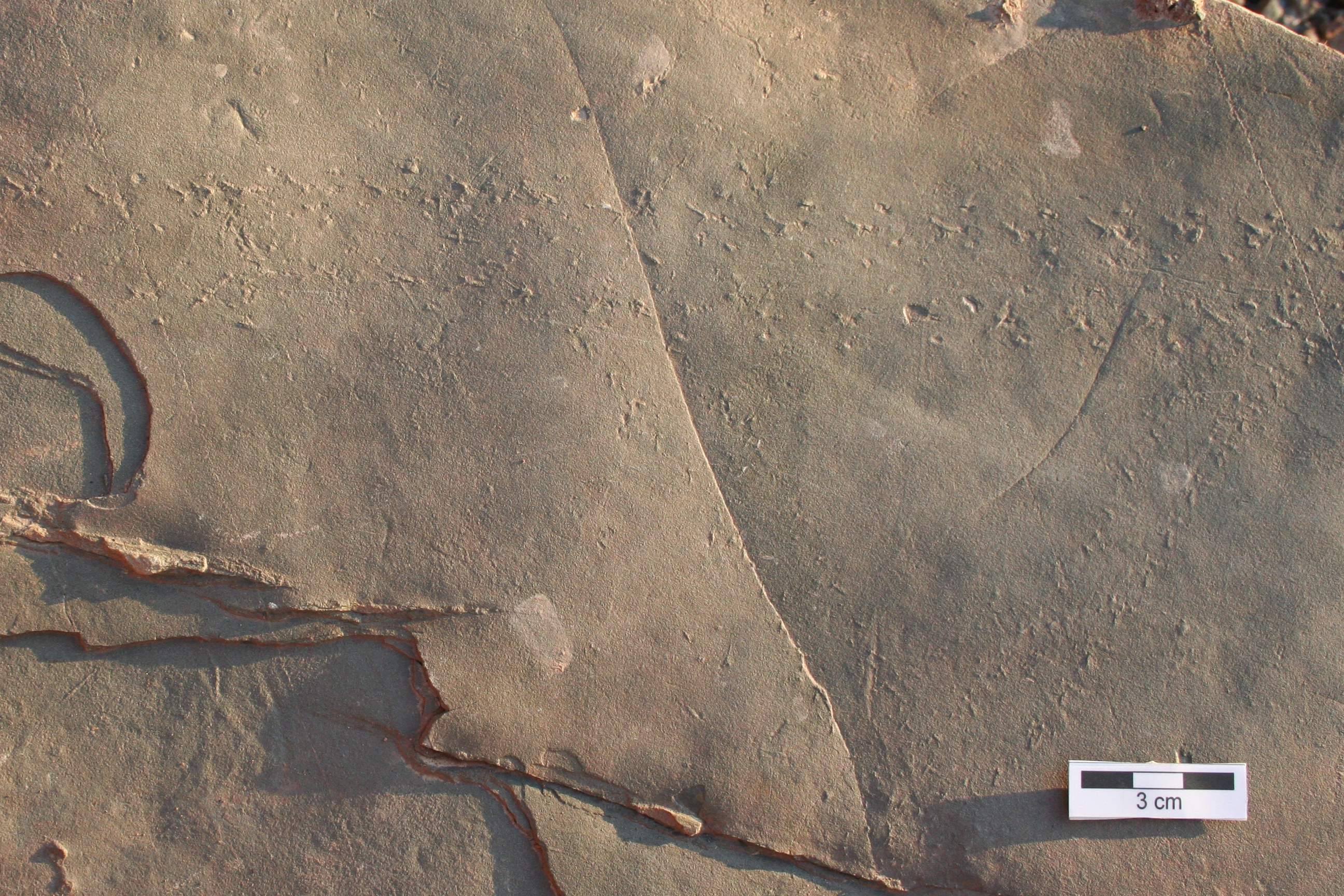 Kouphichnium from the Joggins Formation (Pennsylvanian), Cumberland Basin, Nova Scotia.